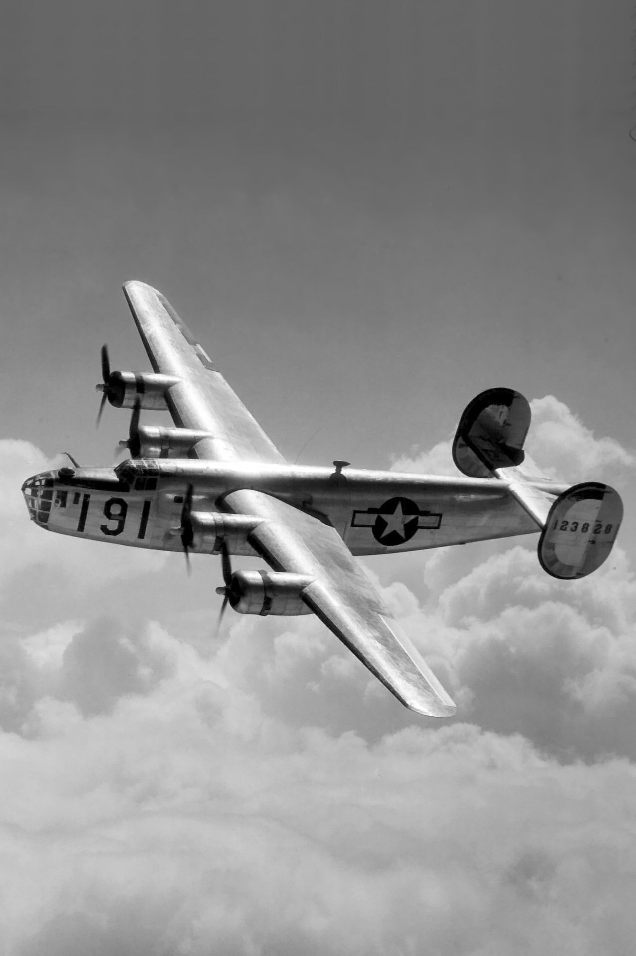 B-24 front quarter top, a historic image provided by USAF.